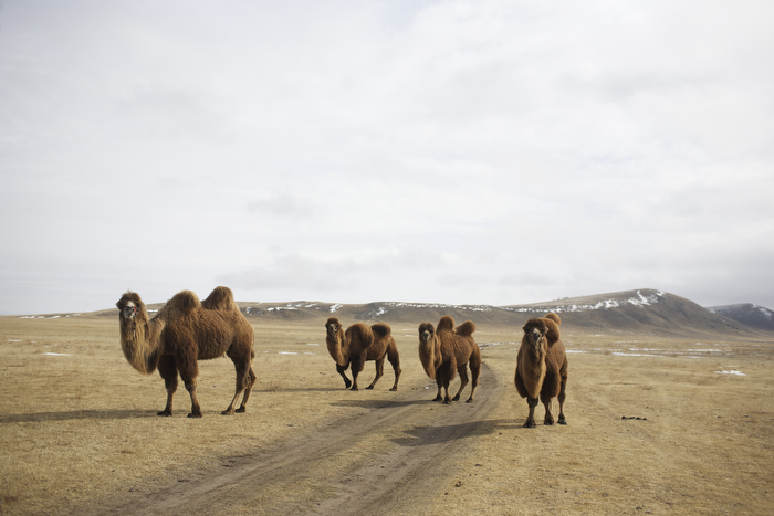 Mongolian Camels.